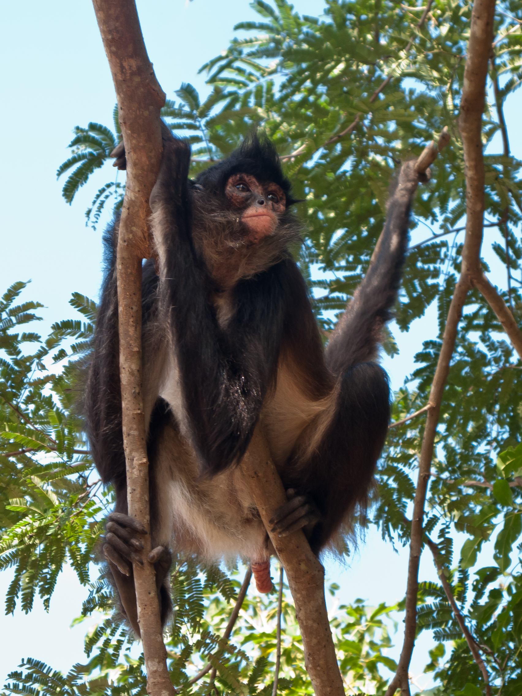 Ateles geoffroyi, Quintana Roo, MexicoGalego: Ateles geoffroyi, Quintana Roo, México. Mono araña